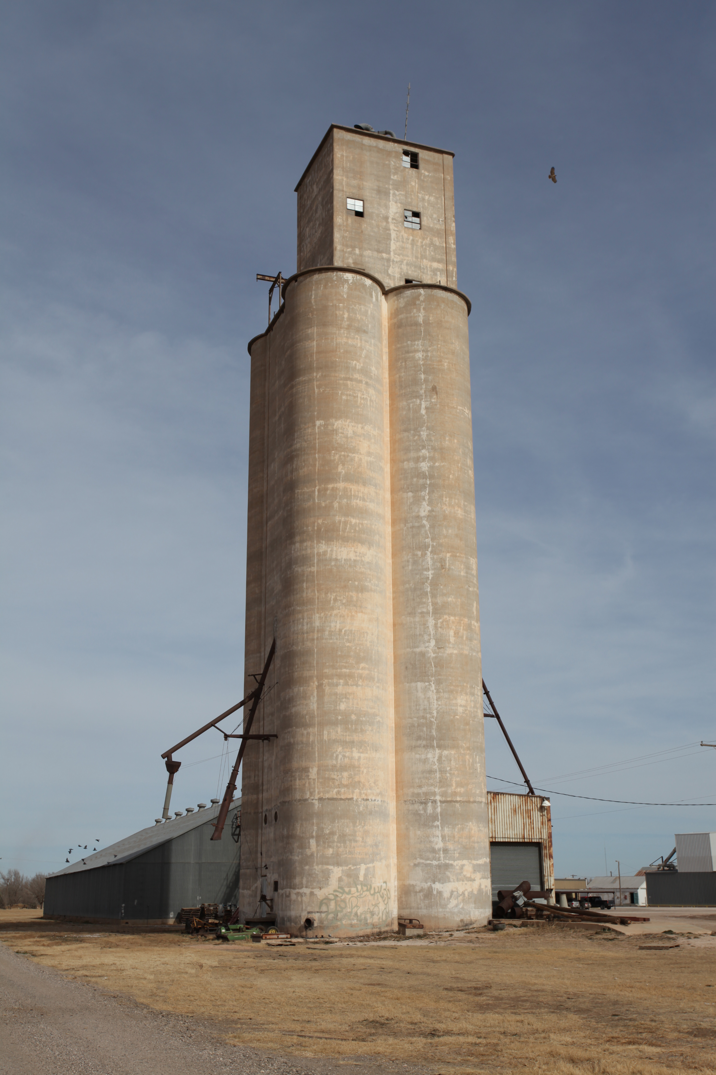 An abandoned grain elevator alongside an abandoned railway on the south side of O'Donnell, Texas of Lynn County. A branch of the Pecos & Northern Texas Railway was constructed from Slaton to Lamesa in 1910. The railway passed through O'Donnell providing rail service for the agricultural industry. The rails were abandoned and completely removed in 1999 and now the towering grain elevator provides an excellent high perch for birds, such as this hawk seen soaring above the structure.